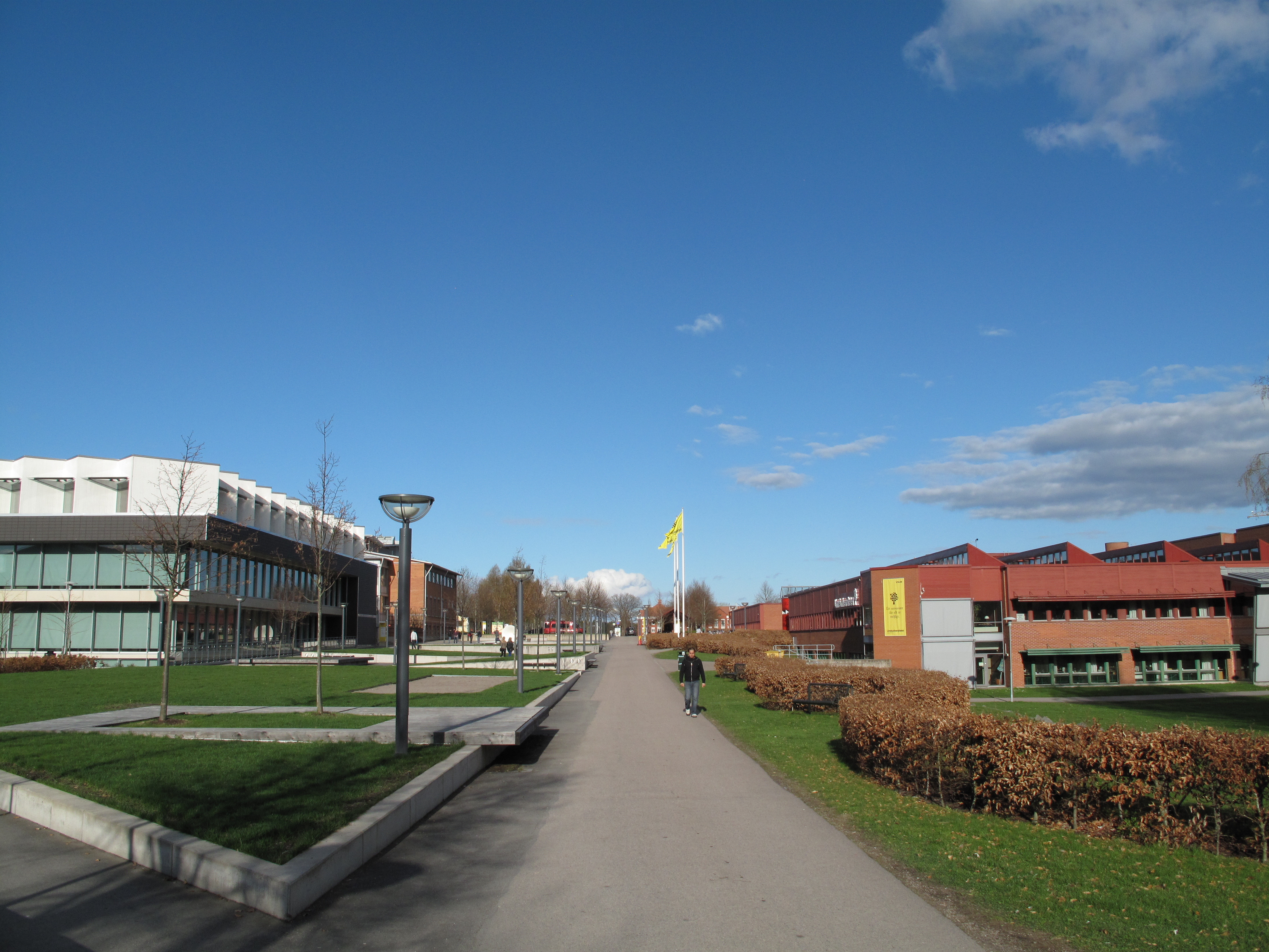 The university in Växjö